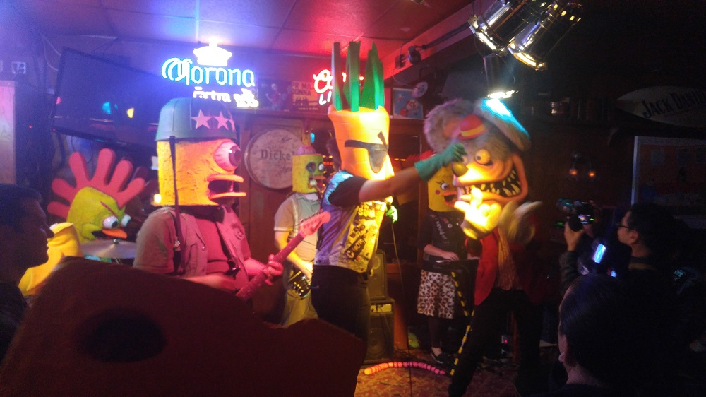 Radioactive Chicken Heads playing at the Maui Sugar Mill Saloon in Tarzana, California in 2016.